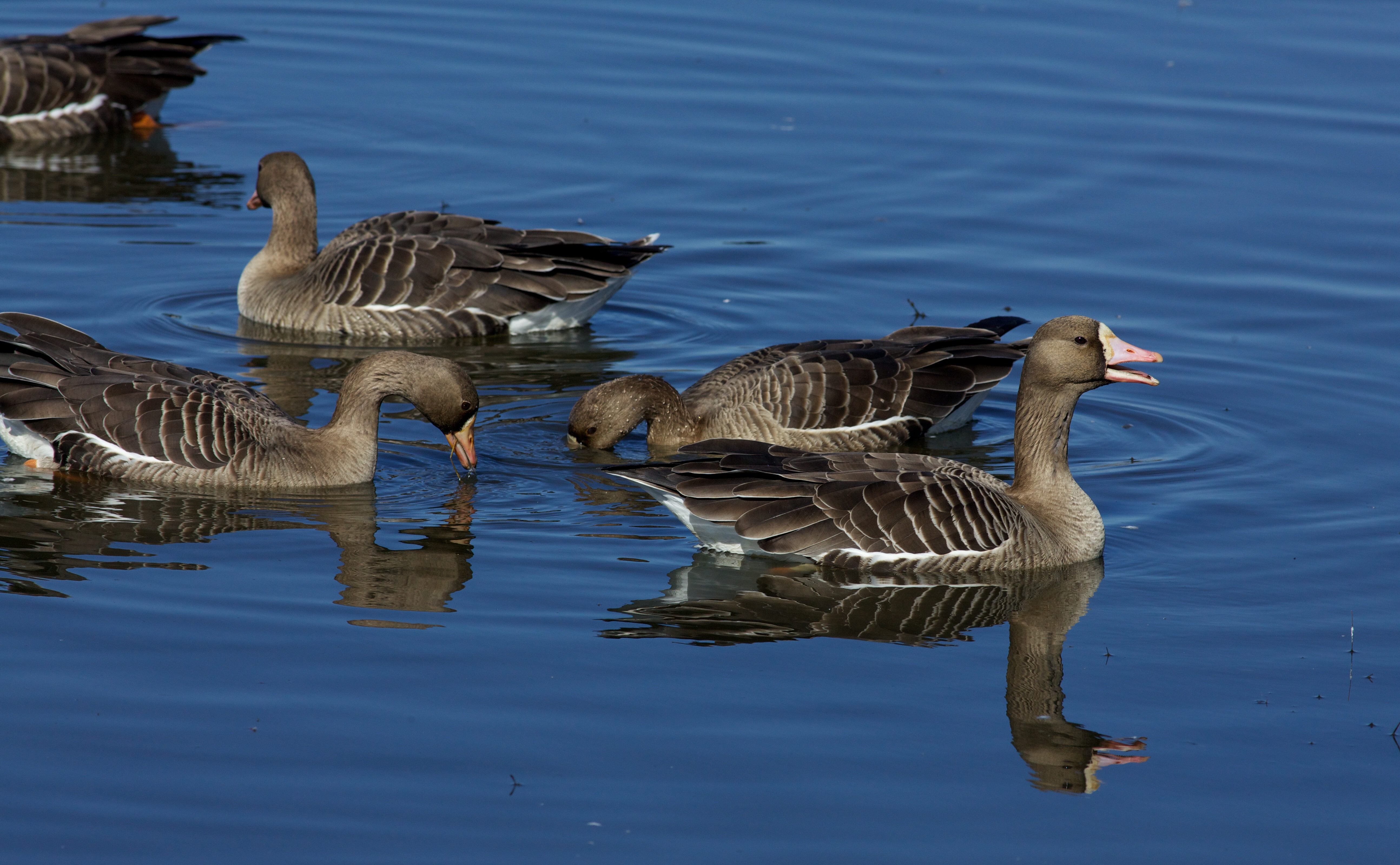 Tule White-fronted Geese Anser albifrons elgasi at Colusa National Wildlife Refuge, Colusa, California